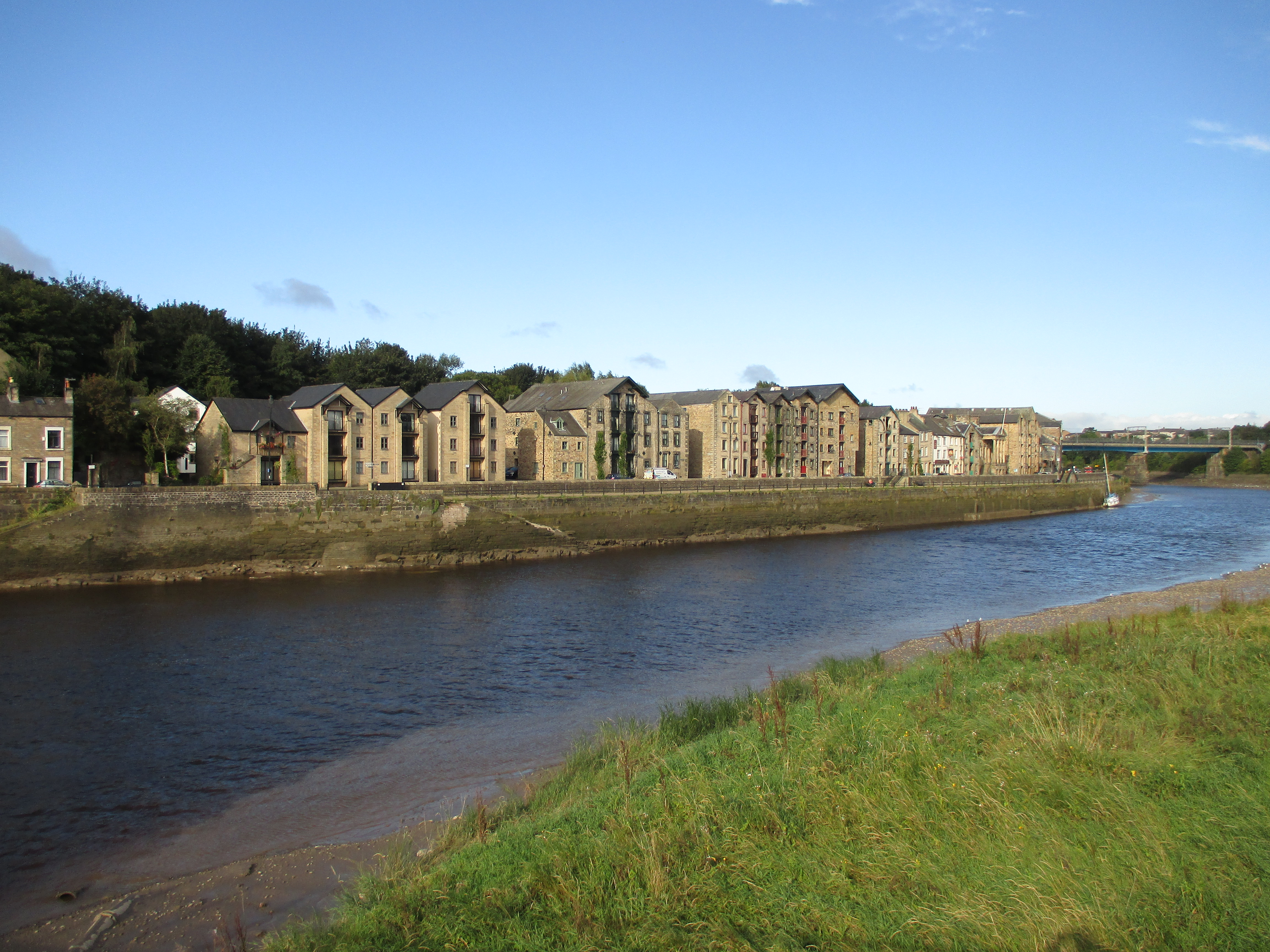 St. George's Quay, Lancaster, Lancashire, seen from the Millennium Bridge. Carlyle Bridge can be seen on the right.